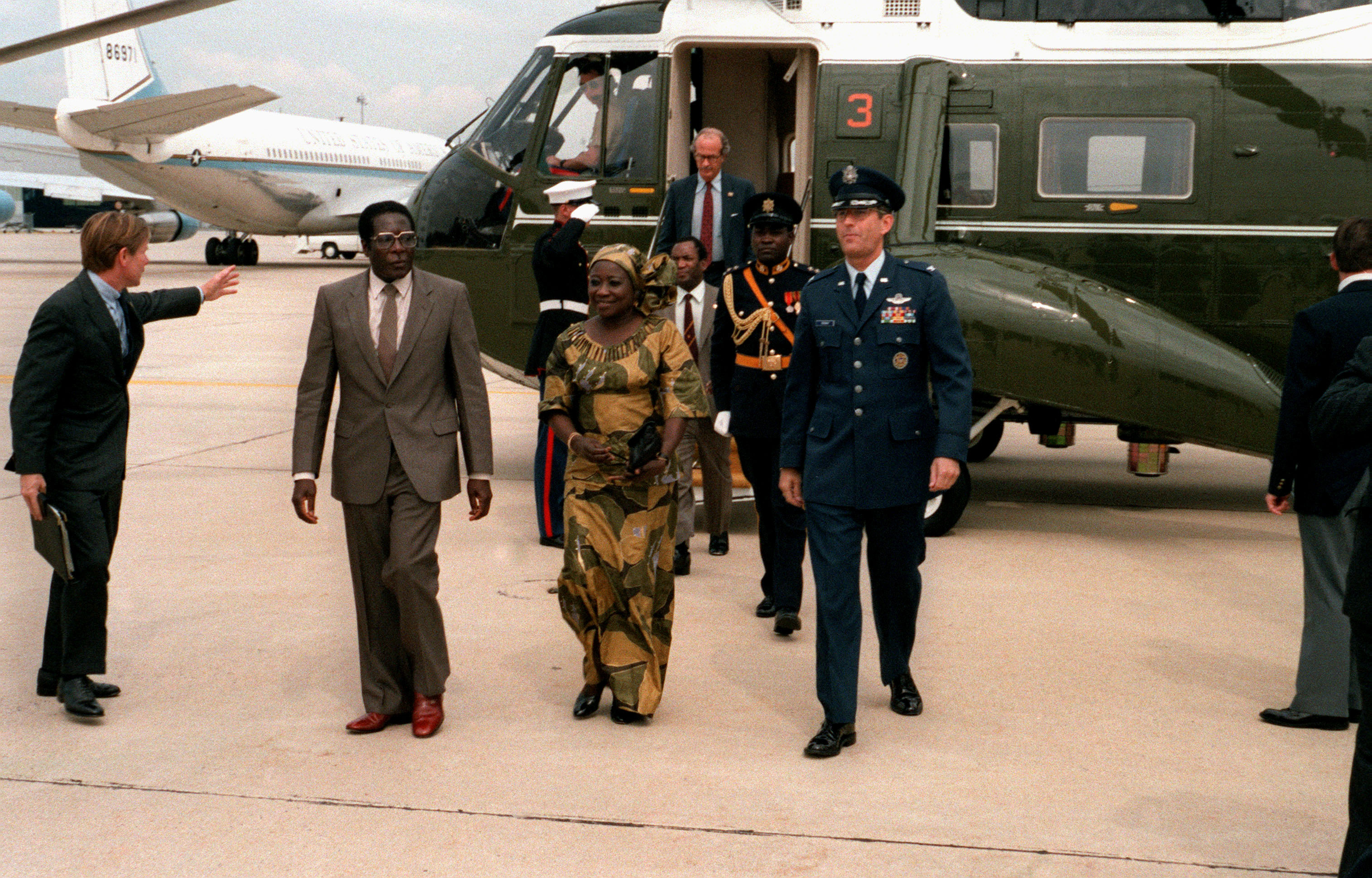 Prime Minister Robert Mugabe of Zimbabwe departs Andrews Air Force Base after a state visit to the United States